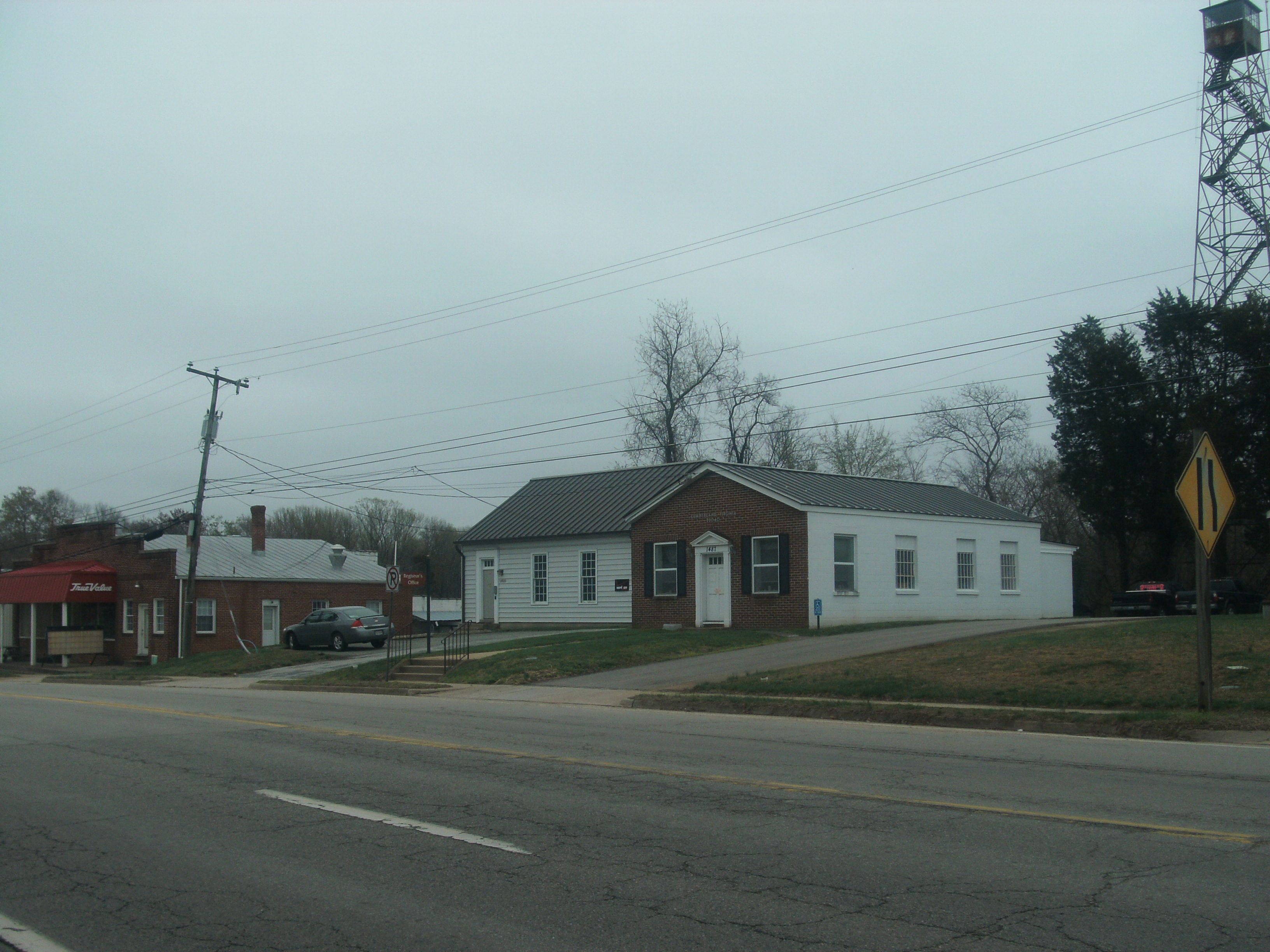 Central Cumberland, Virginia